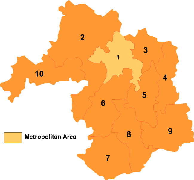 Map of Yibin in Sichuan province